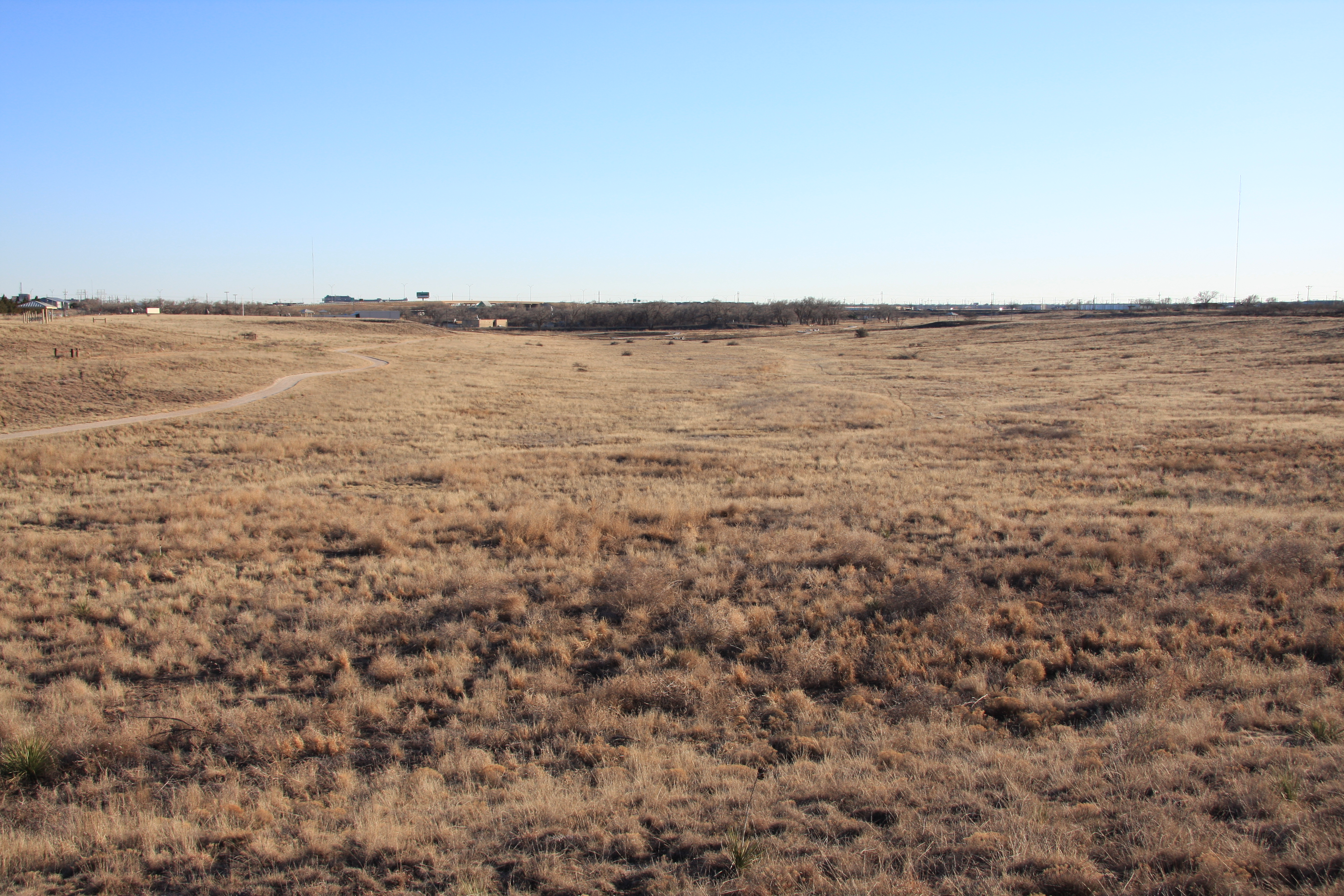 Yellow House Draw — on the Llano Estacado at Lubbock Lake Landmark, in Lubbock County, West Texas. A seasonal tributary of the Brazos River.